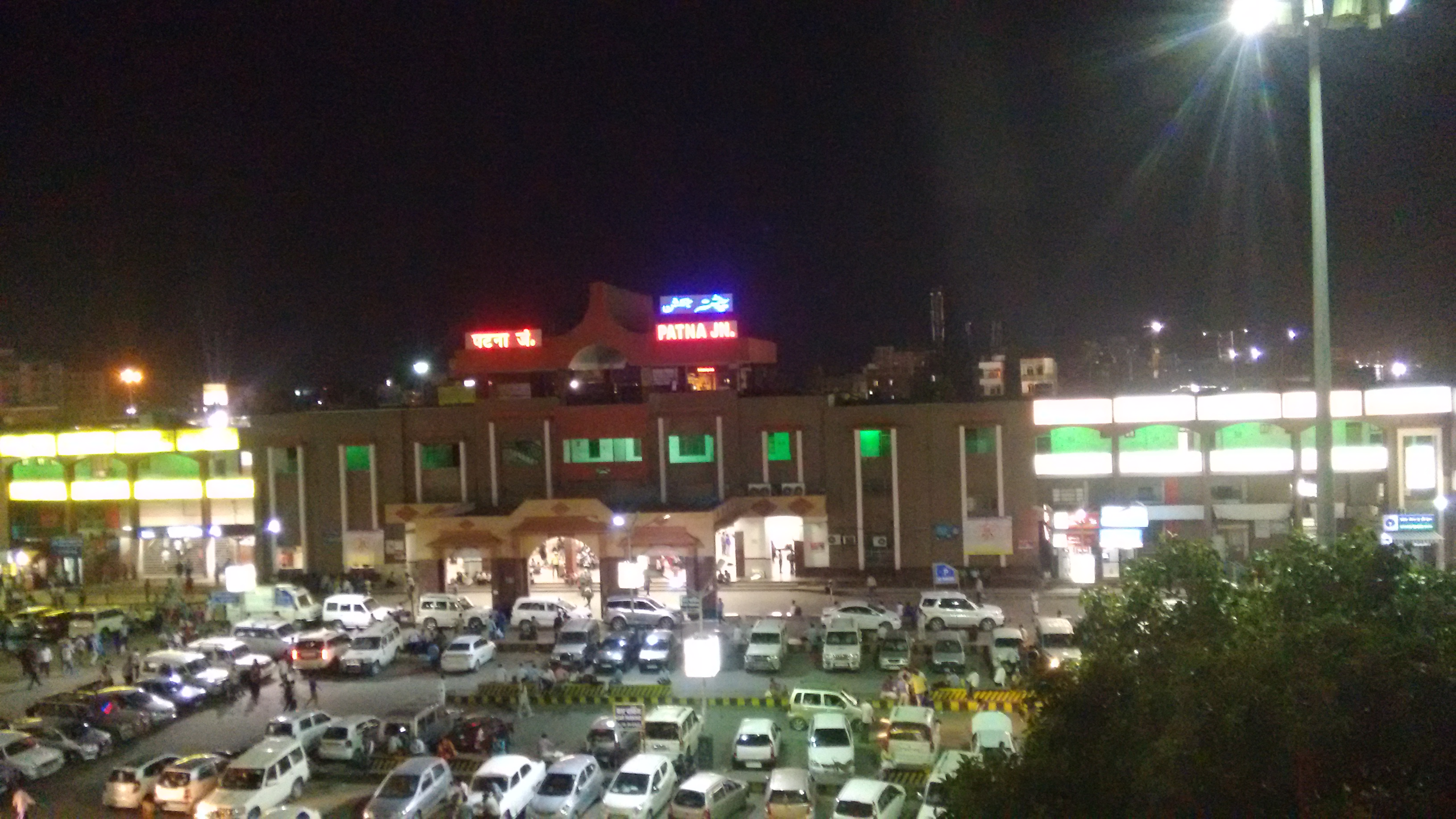 Patna Junction railway station